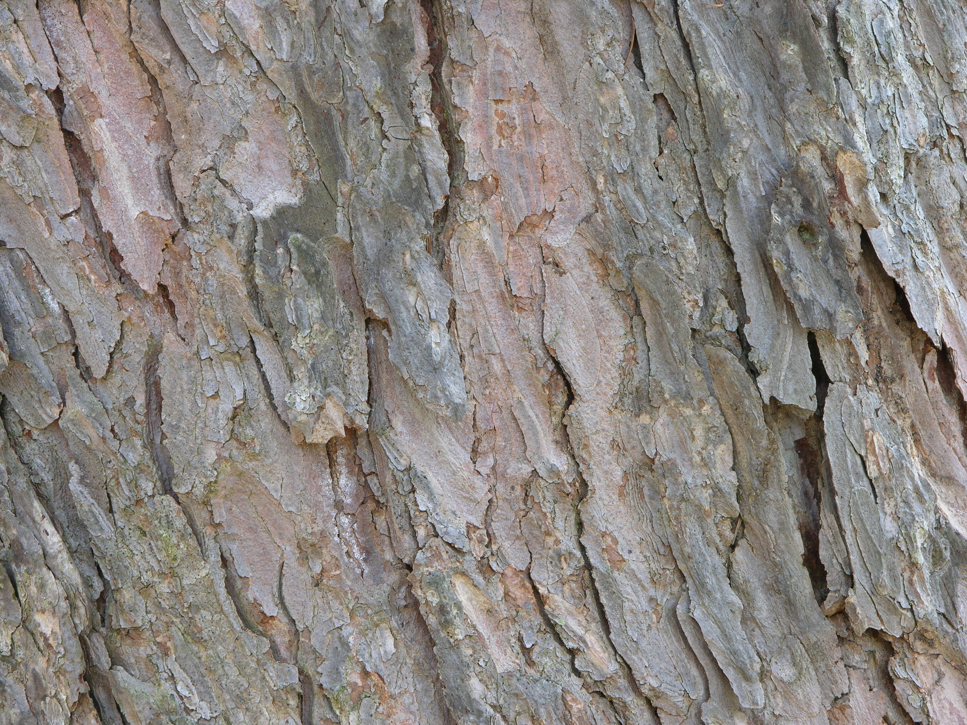 Photograph of the bark on the trunk of a Japanese Larchen (Larix kaempferi en ). Photo taken at the Tyler Arboretum where it was identified.